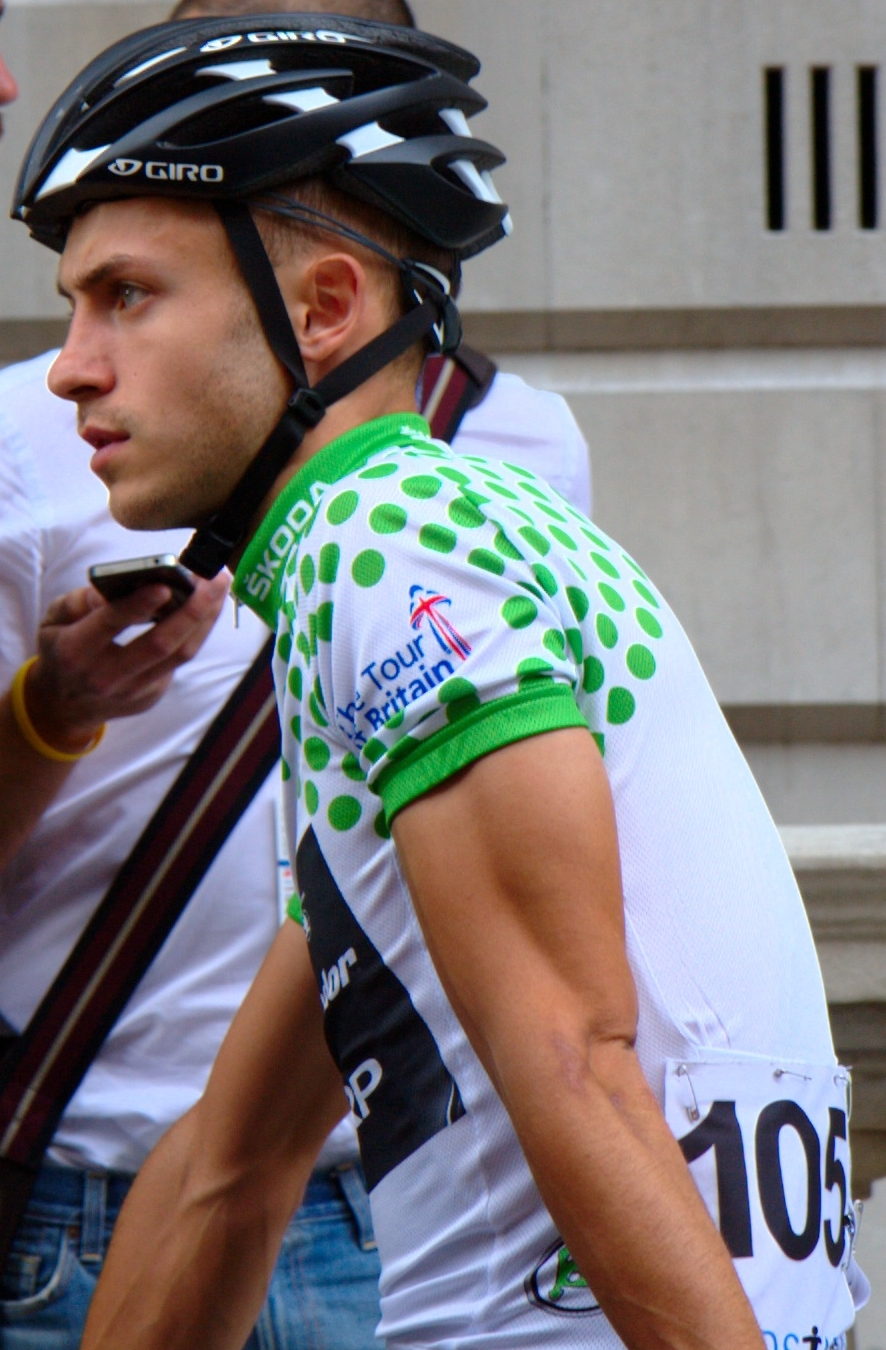 Tiernan-Locke wears the green polka dot jersey for being the winner of the mountains competition in the Tour of Britain this year.